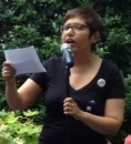 Gloria Casarez delivering her "Dykes First" speech in Kahn Park Philly Dyke March 2012.